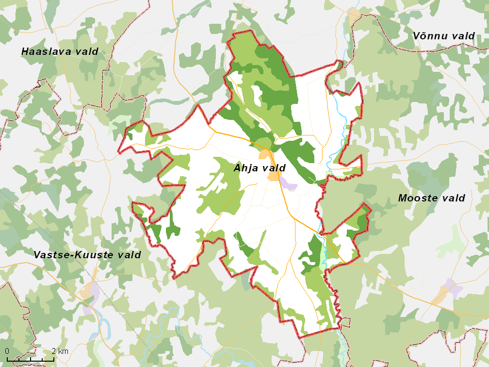 Map of municipality in Estonia